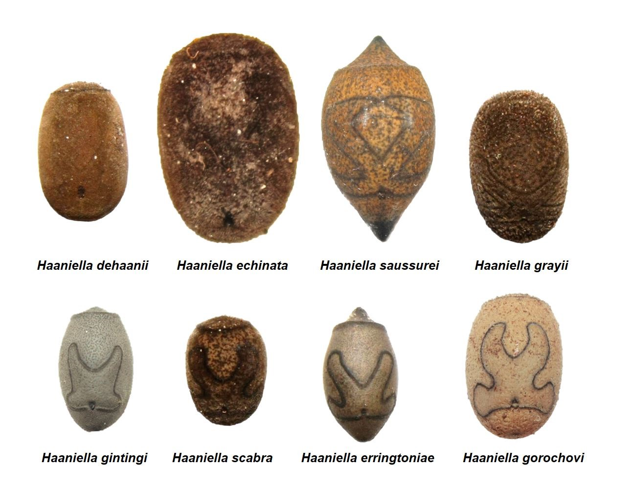 Eggs of 5 Haaniella Species (true to scale)